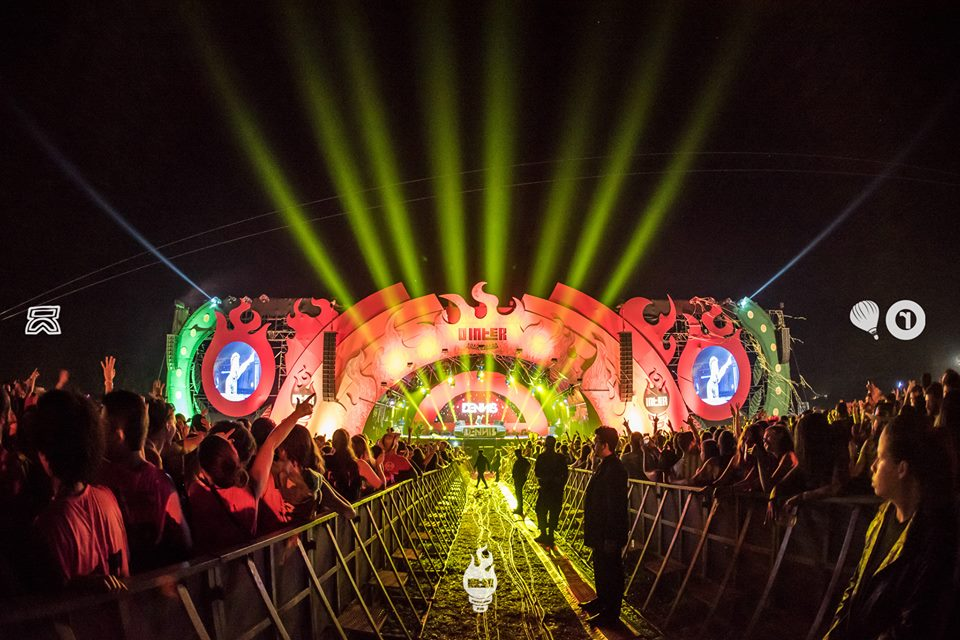 Palco principal